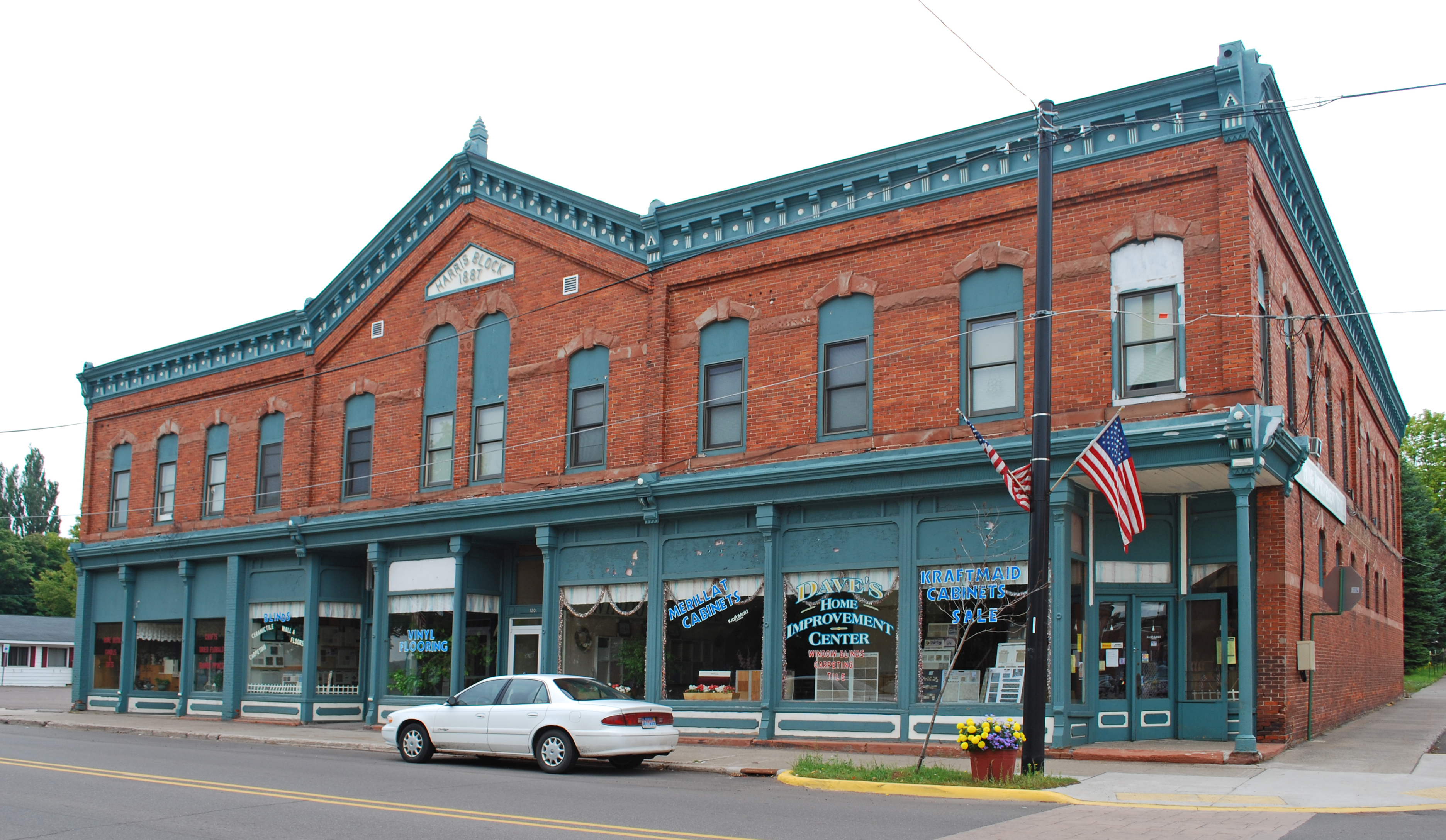 Harris Block building, with date 1887 displaying, in Lake Linden Historic District, Lake Linden, Michigan